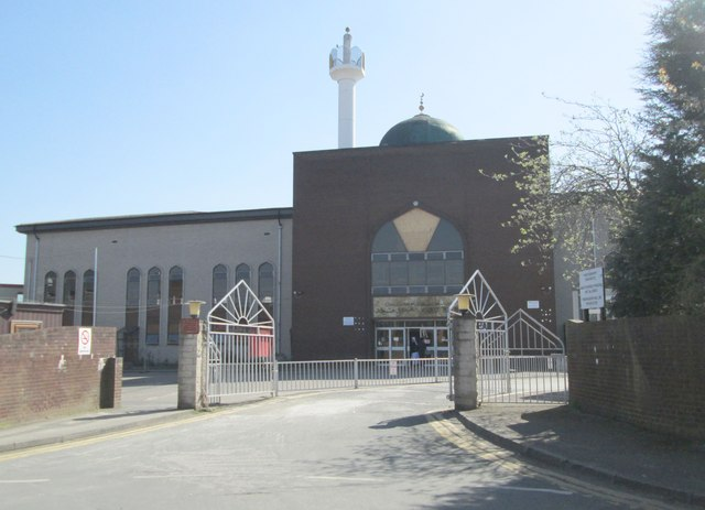 Markazi Masjid - junction of Pentland Street & South Street